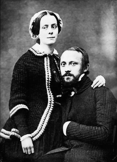 Rudolf Ludwig Carl Virchow (1821-1902) and Rose Mayer (1832-1913) in 1851 in Germany